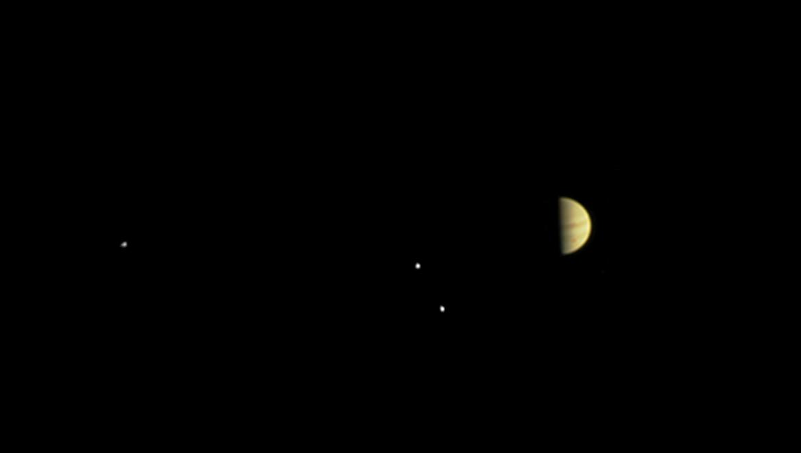 NASA's Juno spacecraft obtained this color view on June 28, 2016, at a distance of 3.9 million miles (6.2 million kilometers) from Jupiter. As Juno nears its destination, features on the giant planet are increasingly visible, including the Great Red Spot. The spacecraft is approaching over Jupiter's north pole, providing a unique perspective on the Jupiter system, including its four large moons. The scene was captured by the mission's imaging camera, called JunoCam, which is designed to acquire high resolution views of features in Jupiter's atmosphere from very close to the planet.